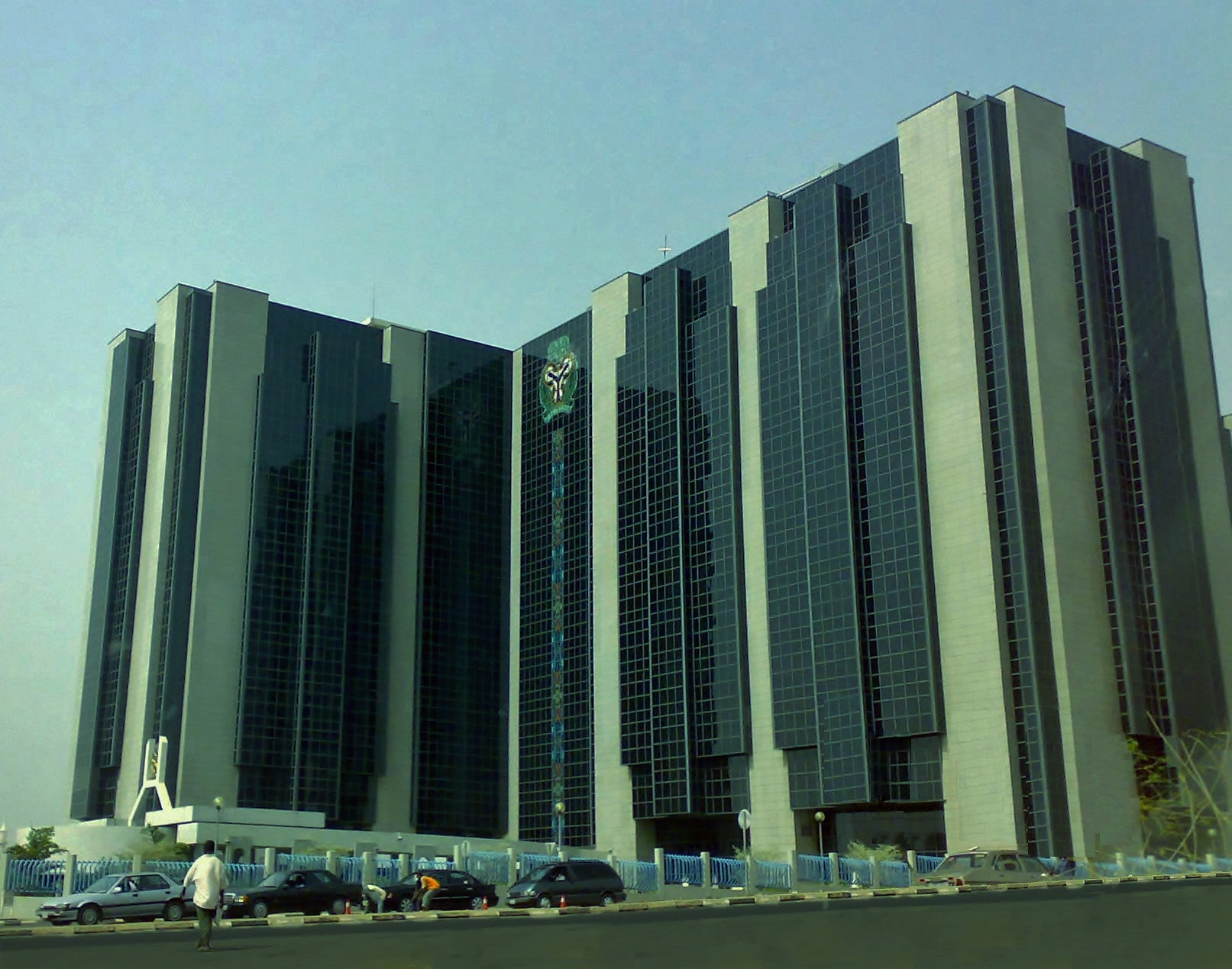 Headquarters of the Central Bank of Nigeria in Abuja, Nigeria